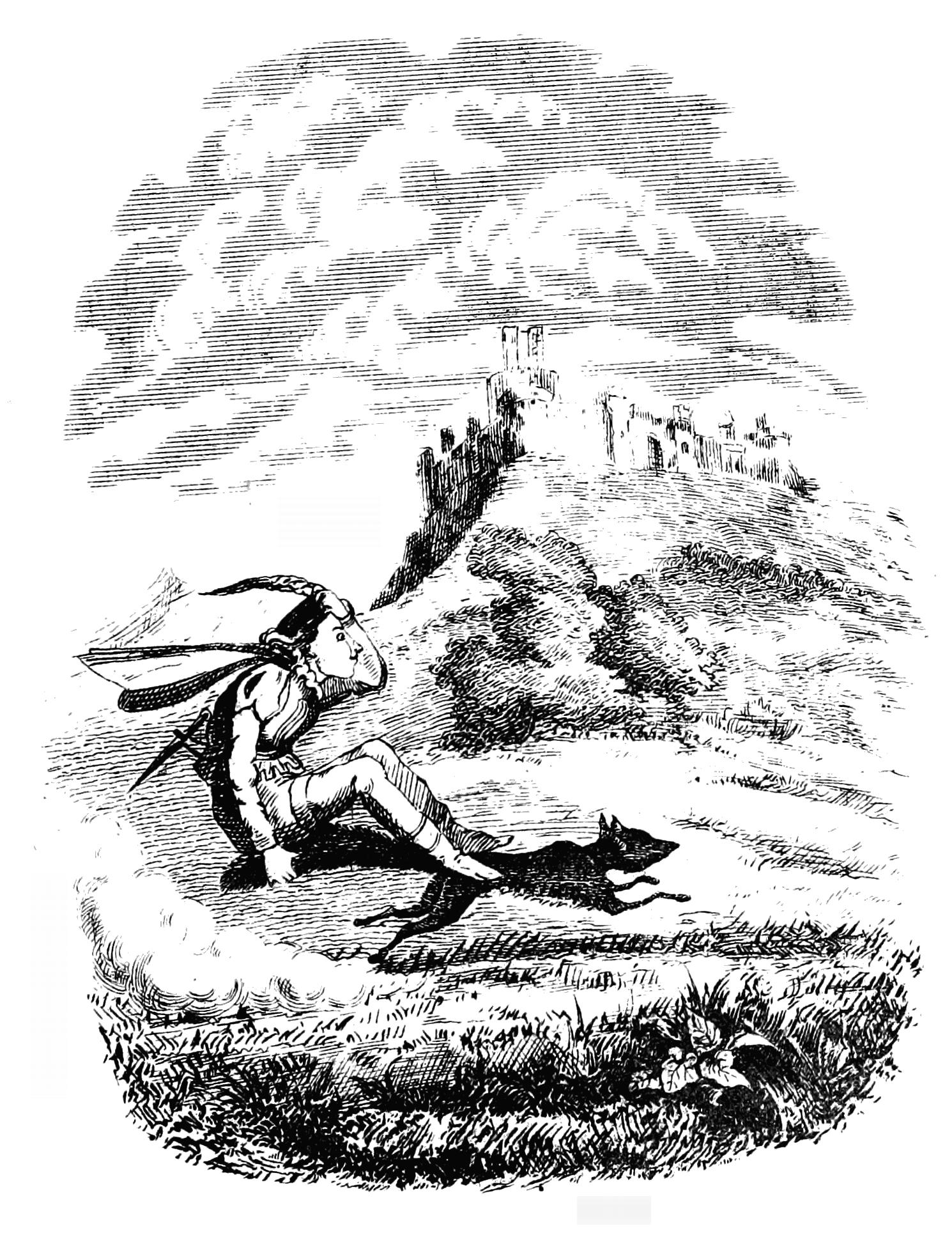 Illustration for a Grimm fairy tale